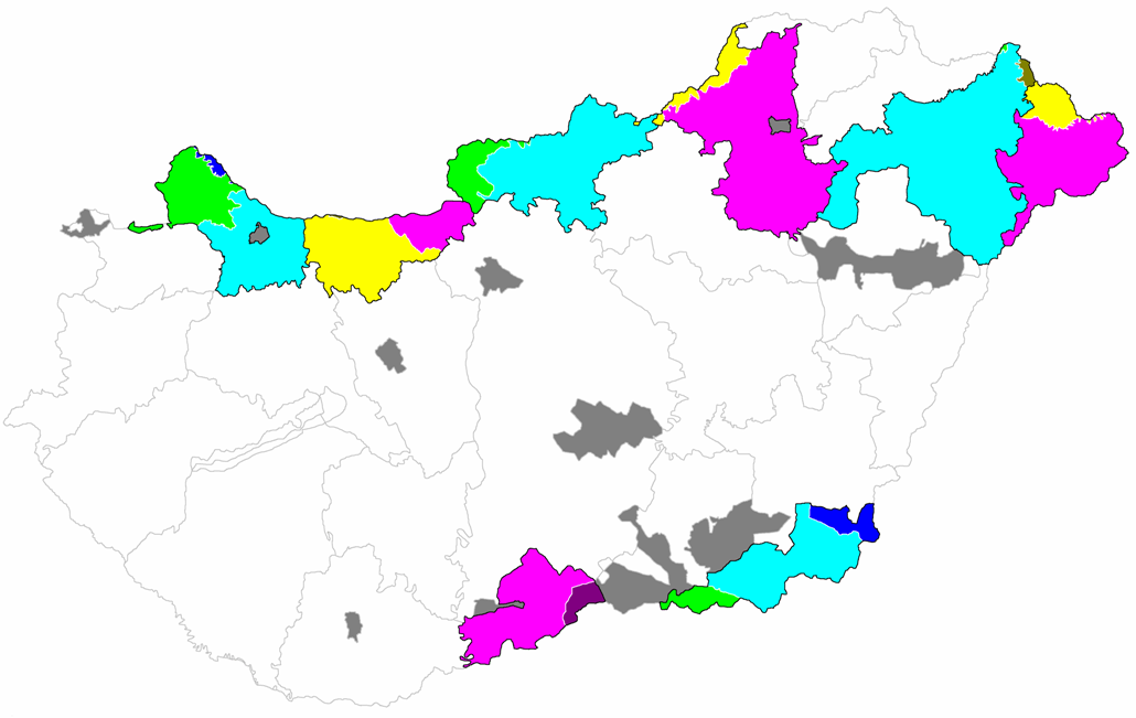 1923 administrative division reform in Hungary Az 1923-as megyerendezés Reforma administracyjna Węgier w 1923